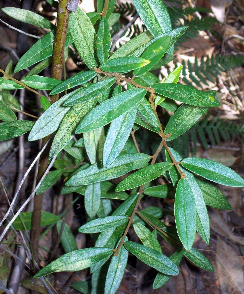 Pomaderris ferruginea, labelled at Stony Ridge Gardens, Dee Why, NSW, Australia